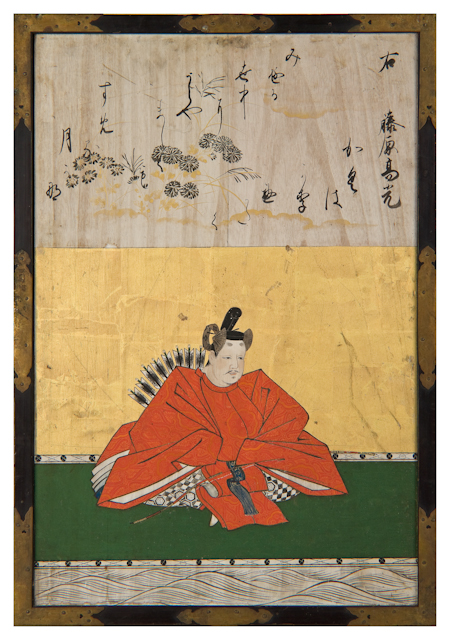 Sanjūrokkasen-gaku (Thirty-six Poetry Immortals framed picture) #26: Fujiwara no Takamitsu